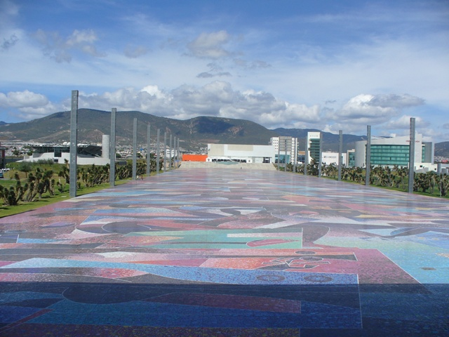 Explanada Tuzoforum — el mosaico mas grande de México y de Latinoamerica. Del Parque David Ben Gurión — en Pachuca, estado de Hidalgo, México.